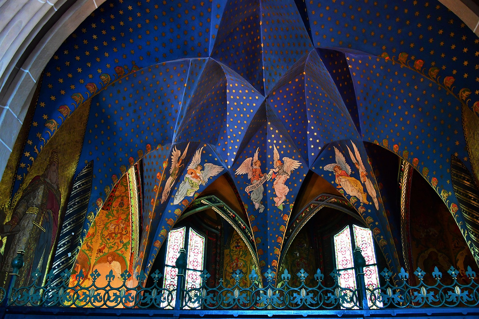 Kapelle, Albrechtsburg, Meißen